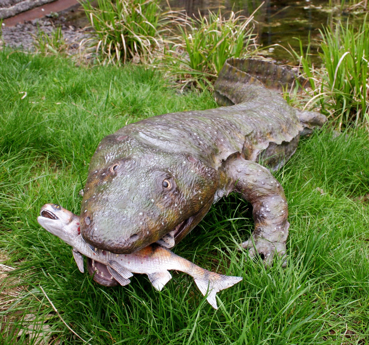 Model of Sclerocephalus haeuseri with catched fish of the genus Paramblypterus (at State Museum of Natural History Stuttgart)